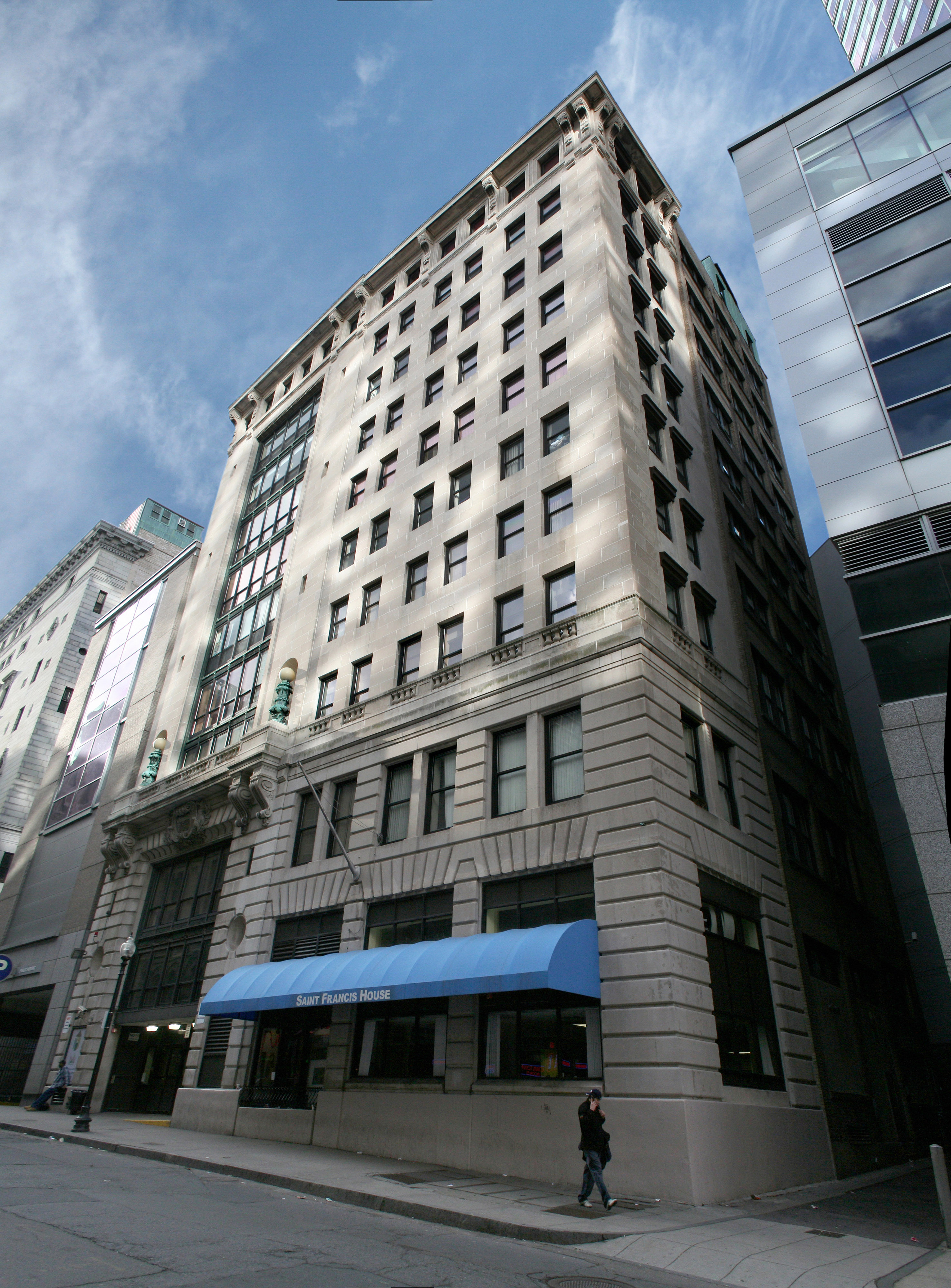 Boston Edison Electric Illuminating Company, located at 25-39 Boylston St., in Boston, Massachusetts. This site is a Registered Historic Place in Suffolk County, Massachusetts.